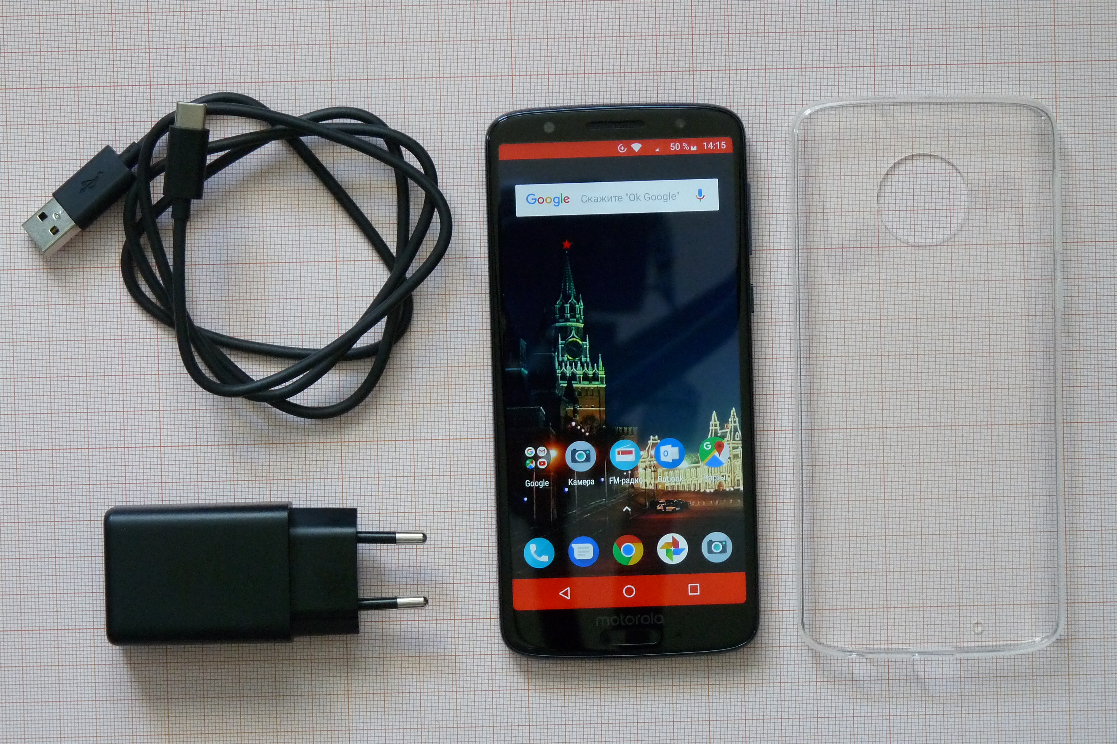 Motorola moto G6